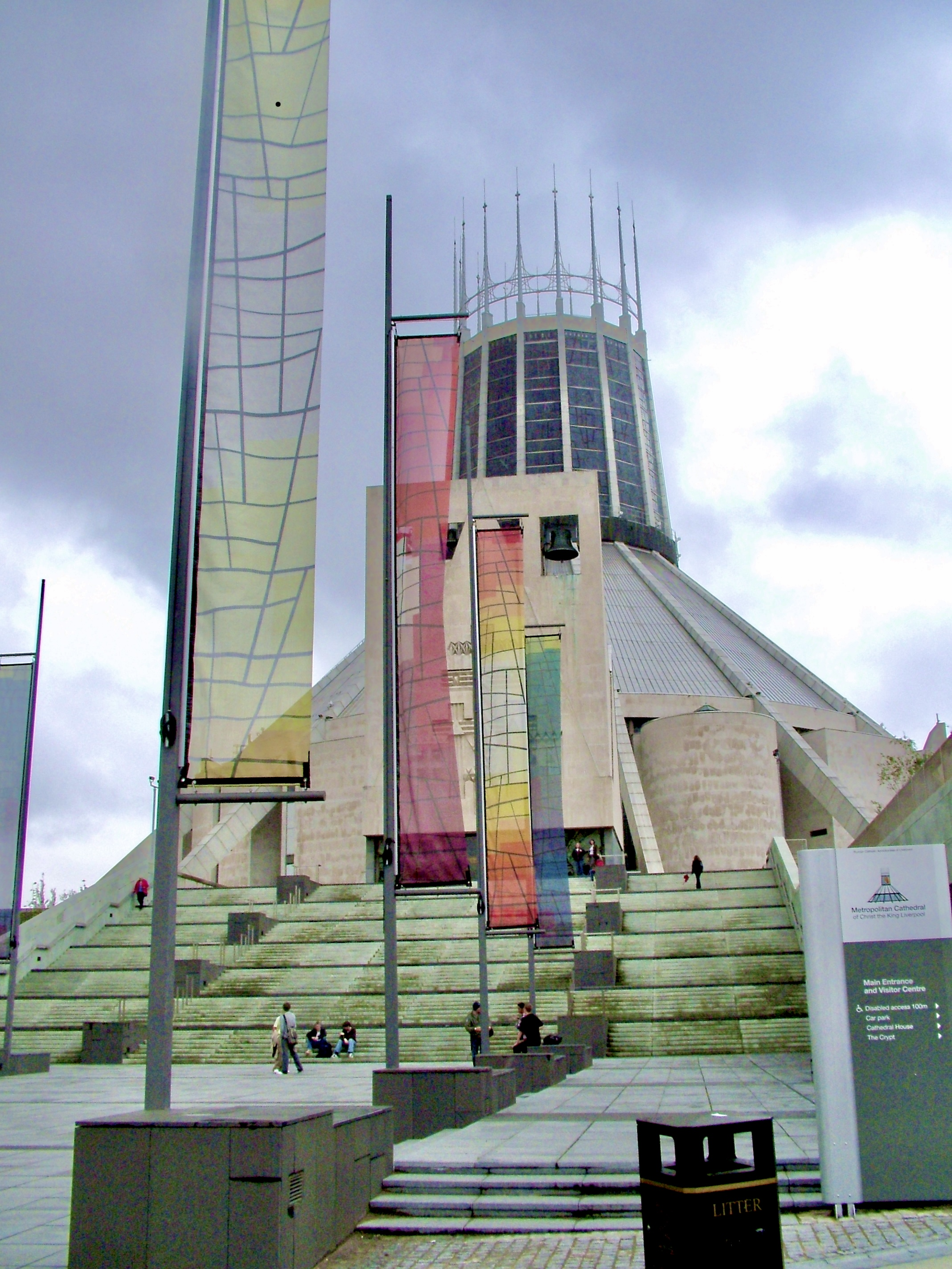 Liverpool Metropolitan Cathedral. Taken by Chris Howells, September 2005.